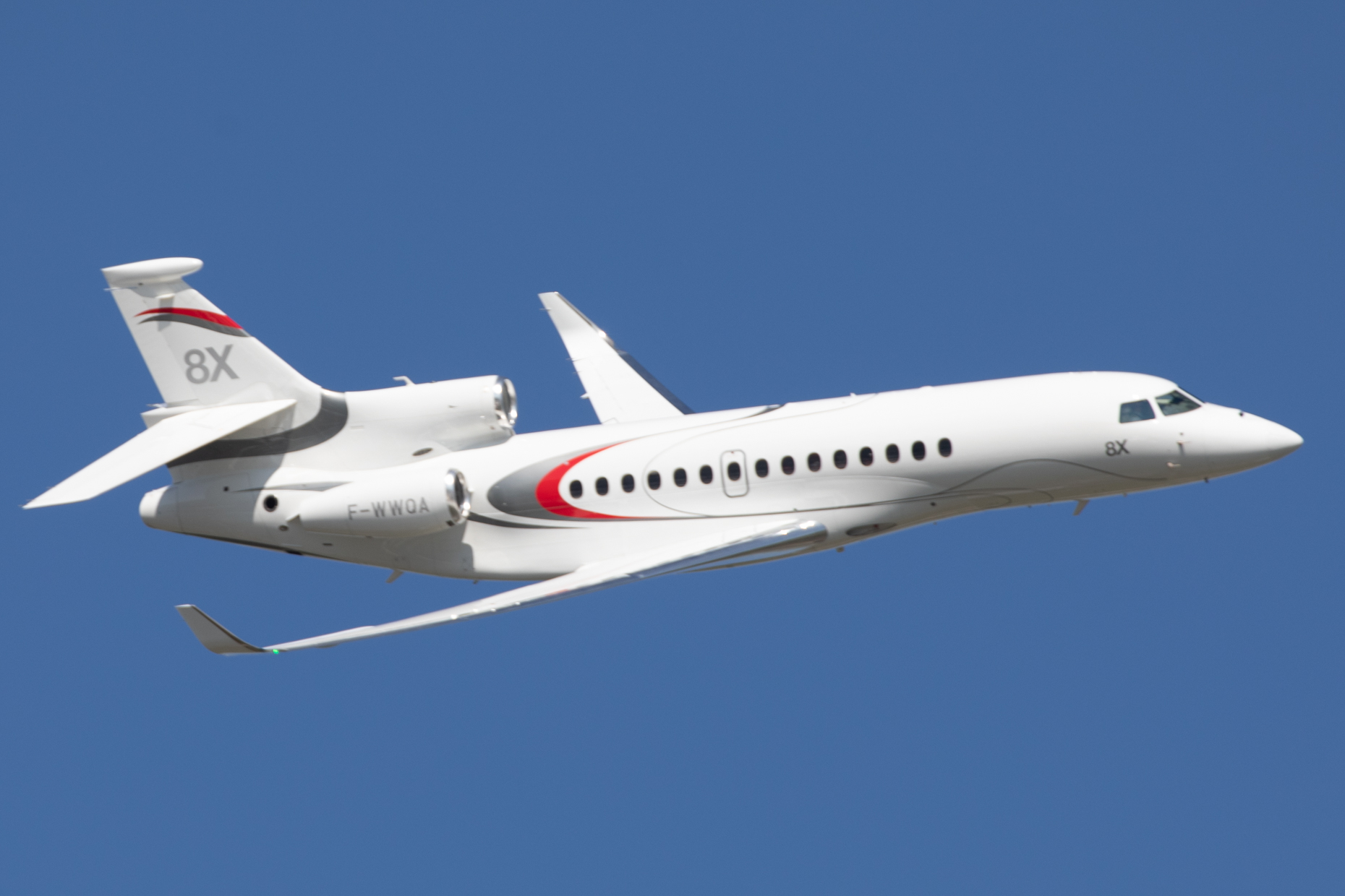 Paris Air Show 2019